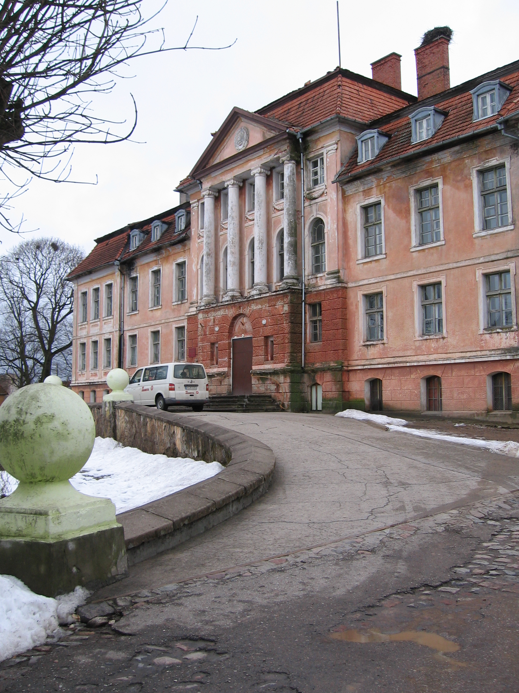 Zheleznodorozhny